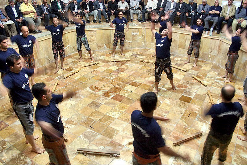 Pahlevan Namjoo Zurkhaneh in Azadi Street, Tehran.